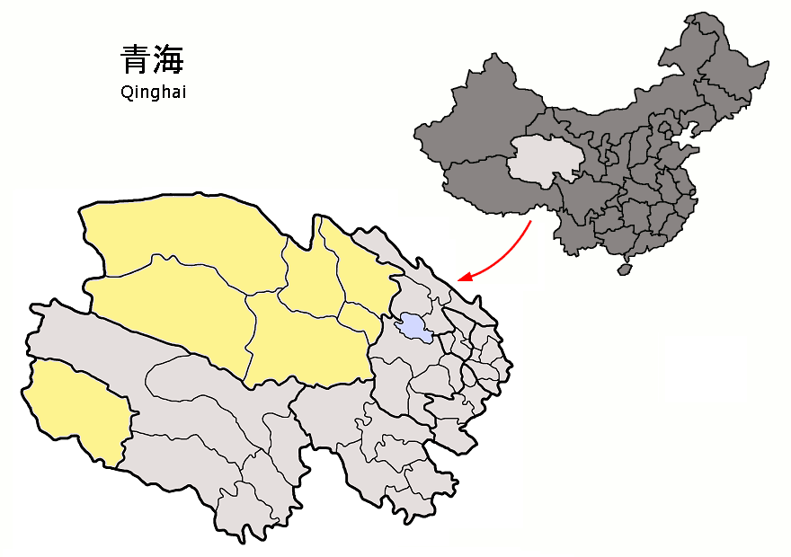 Location of Haixi Prefecture (yellow) within Qinghai province of China Map drawn in september 2007 using various sources, mainly : Qinghai province administrative regions GIS data: 1:1M, County level, 1990 Qinghai Counties map from "Plateau Perspectives" (the limits of some county-level subdivisions may not be accurate)